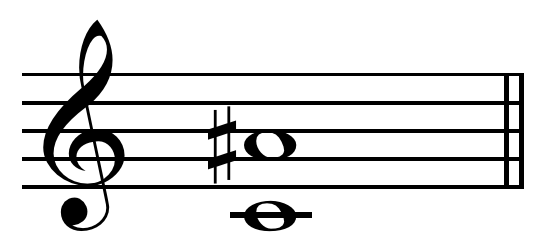 Augmented sixth on C = A♯. Just: 125:72 = 955.03 cents. Equal-tempered: 210/12:1 = 1000 cents. Created by Hyacinth (talk) 04:17, 8 January 2011 using Sibelius 5.